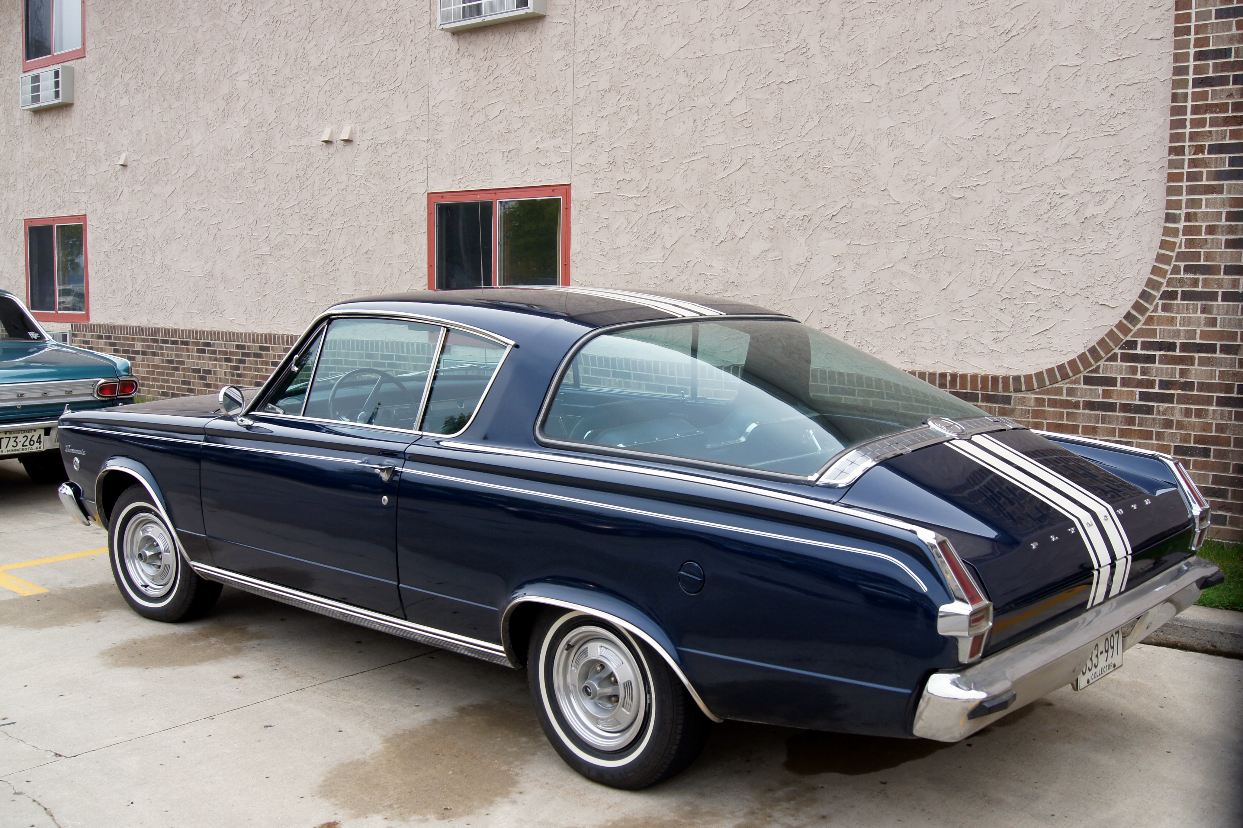 Willmar Car Club Car Buffs' Breakfast Spicer American Legion October 2013